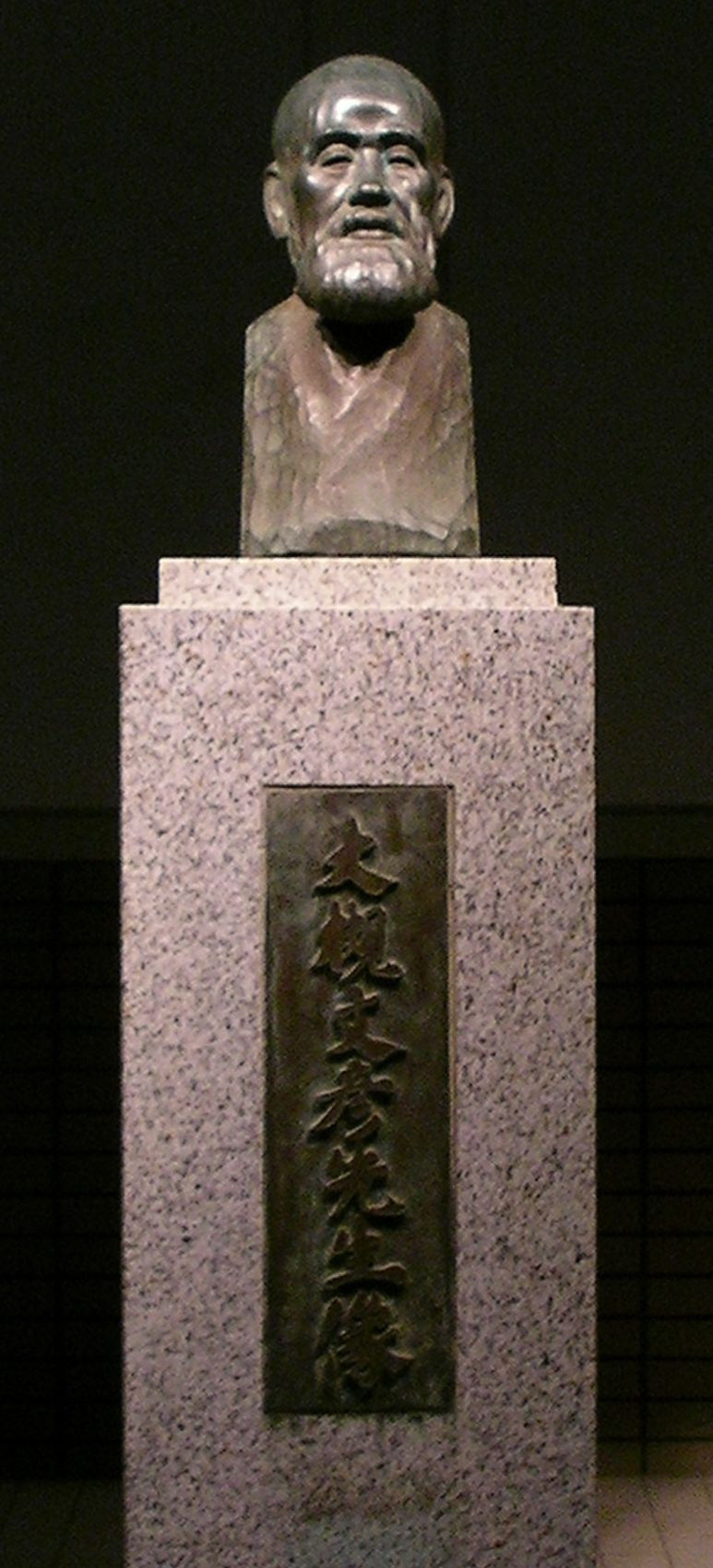 Photograph of the bust of Otsuki Fumihiko (大槻文彦) in Sendai First High School (宮城県仙台第一高等学校)